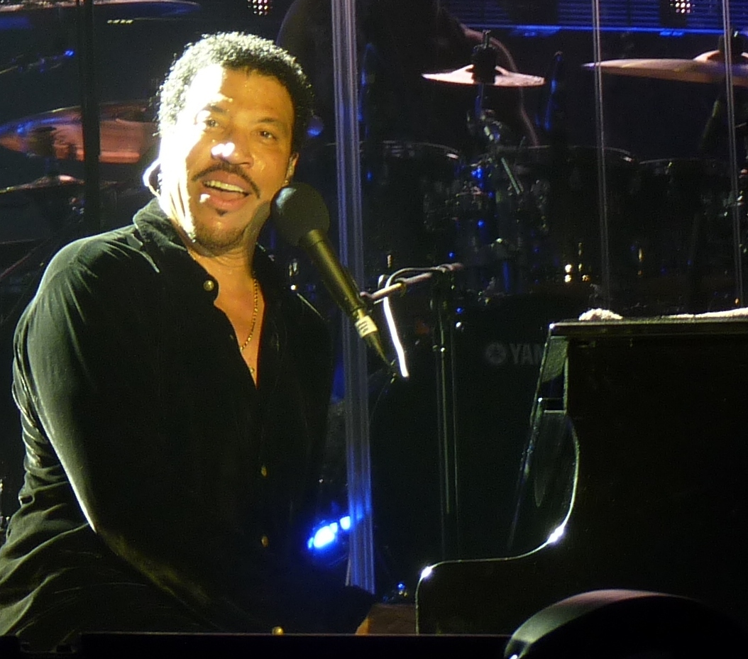 Lionel Richie performing on stage on his 2011 Australian and New Zealand concert tour.